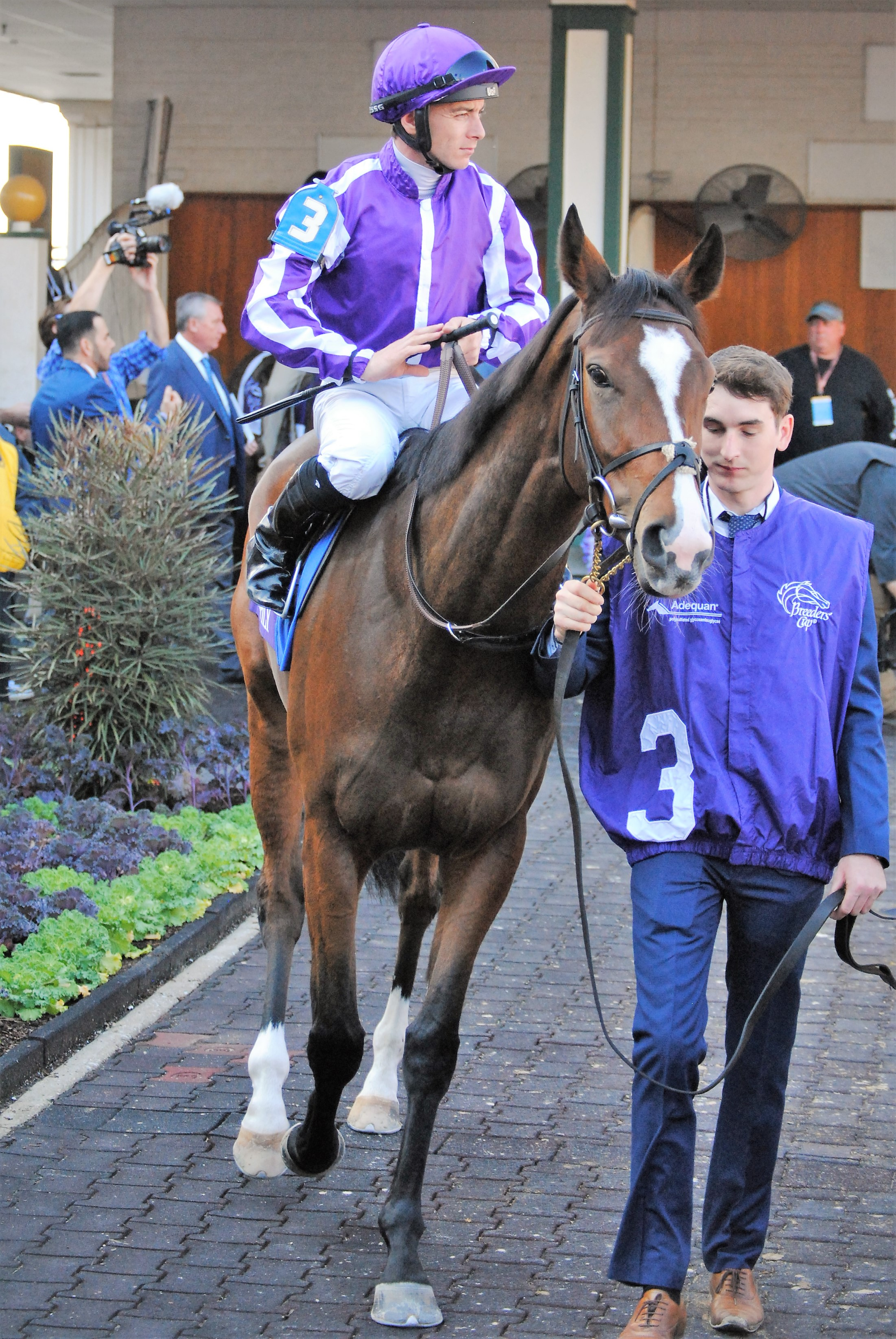 Happily and Wayne Lordan at the 2018 Breeders' Cup